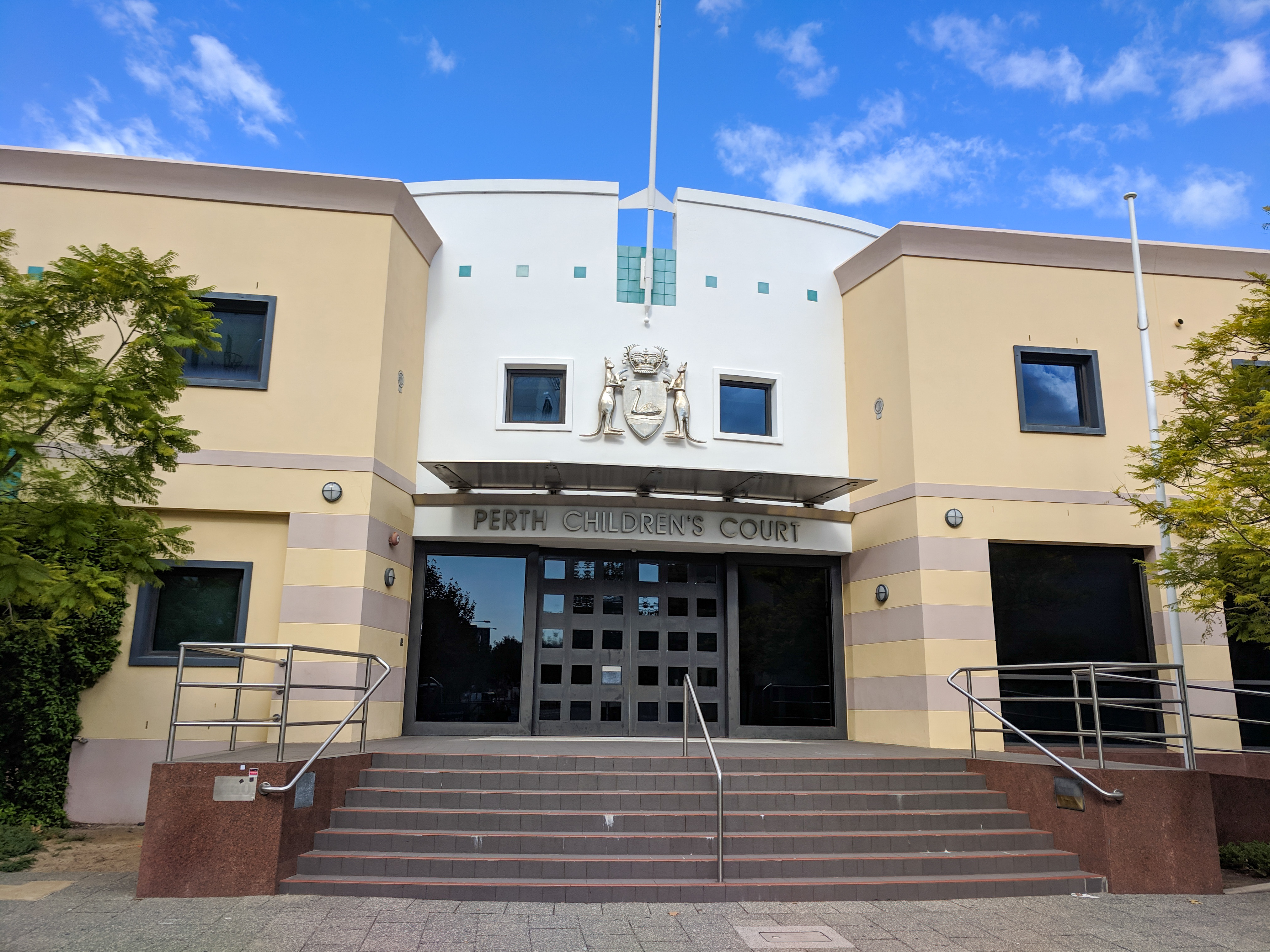 Entrance to Perth Children's Court on Pier Street